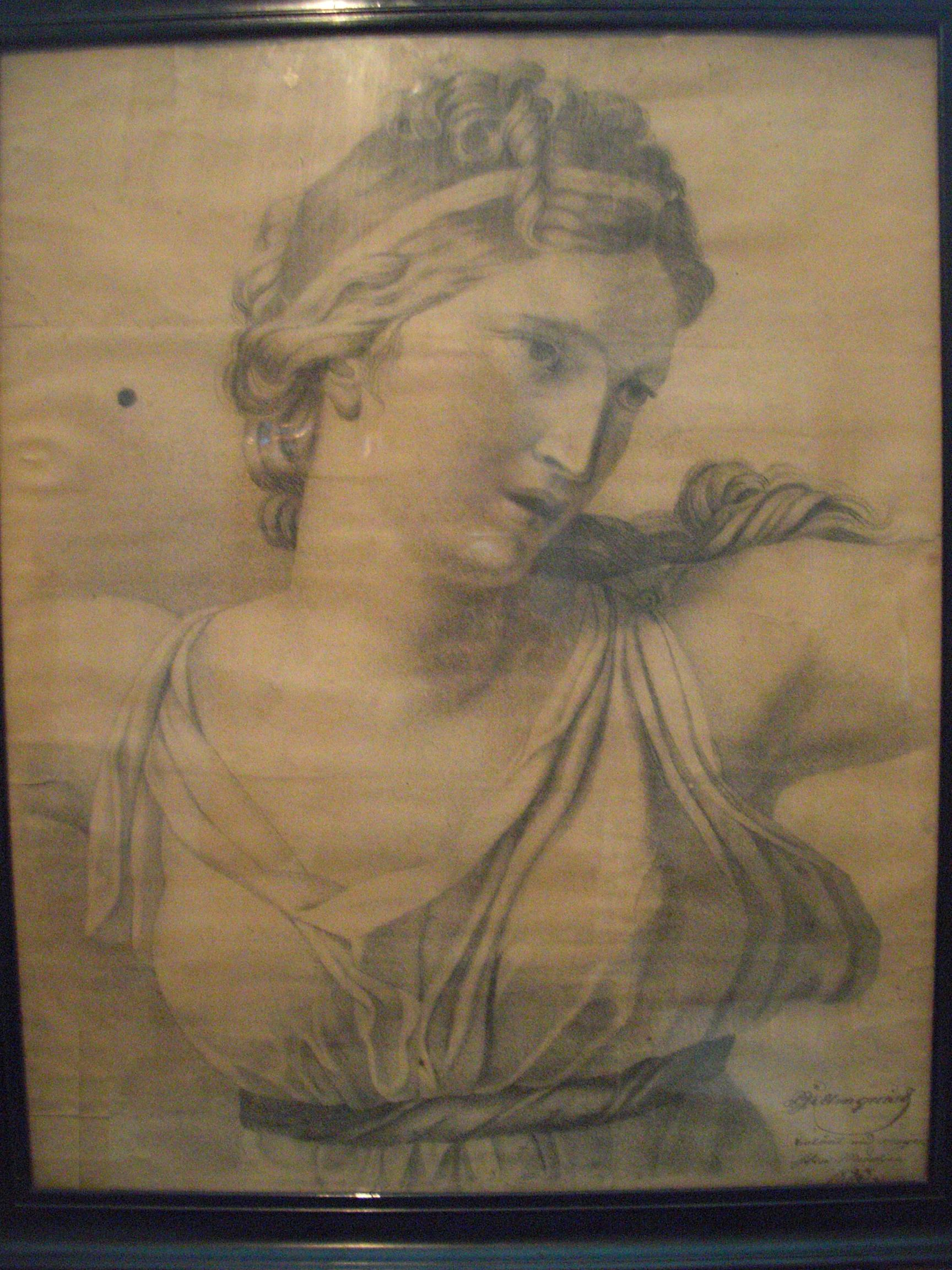 Painting made by the Swedish author Carl Jonas Love Almqvist 1823. The owner of the painting accept this photo being released.